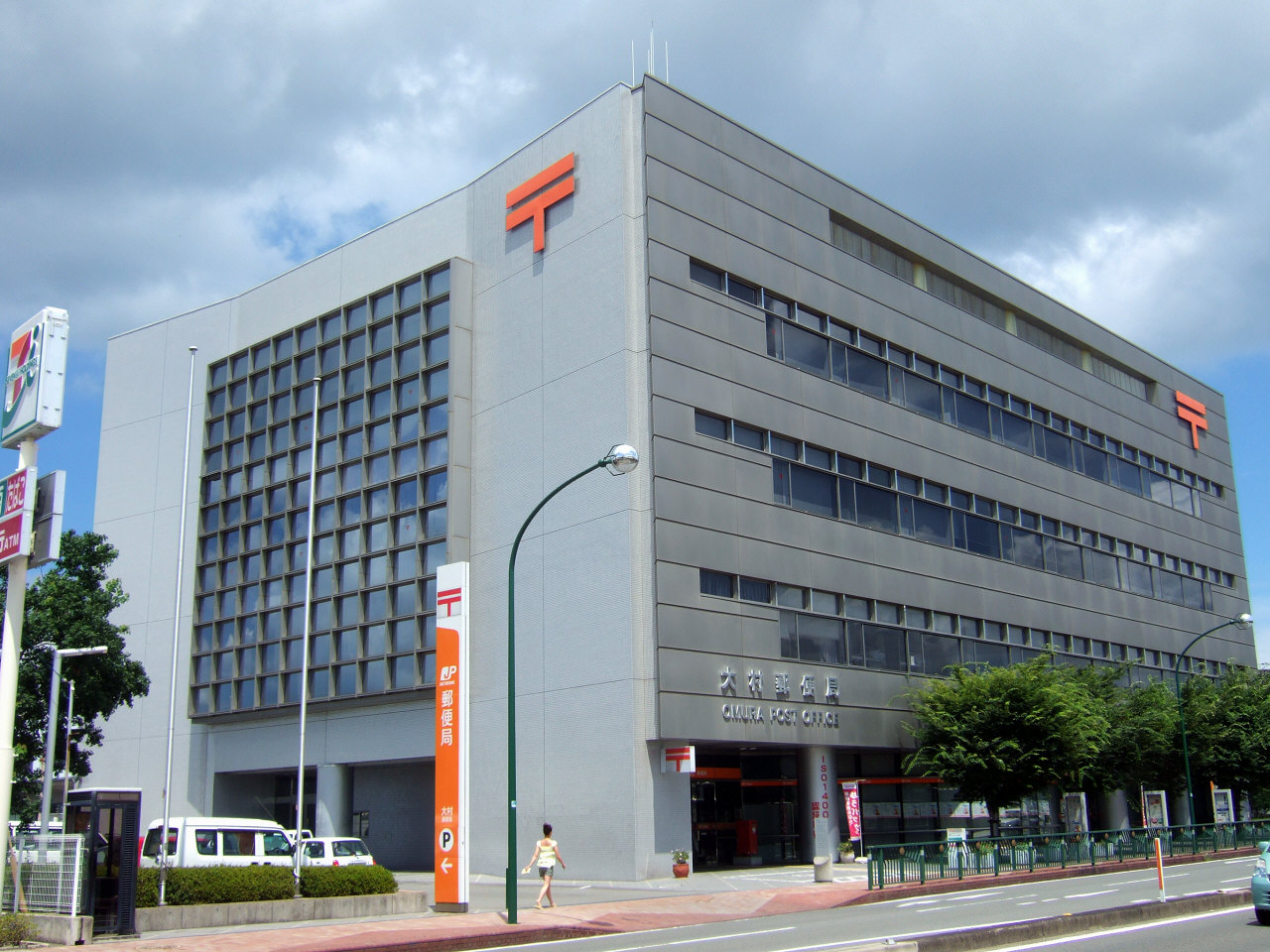 Omura Post Office